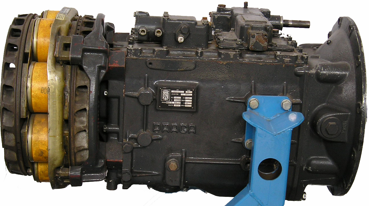 Gearbox Praga with electric retarder from the Karosa bus.